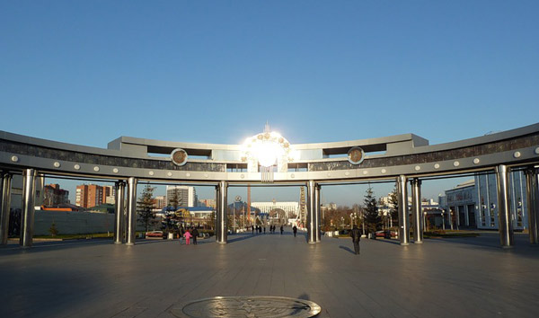 Cvetnoi Bulvar